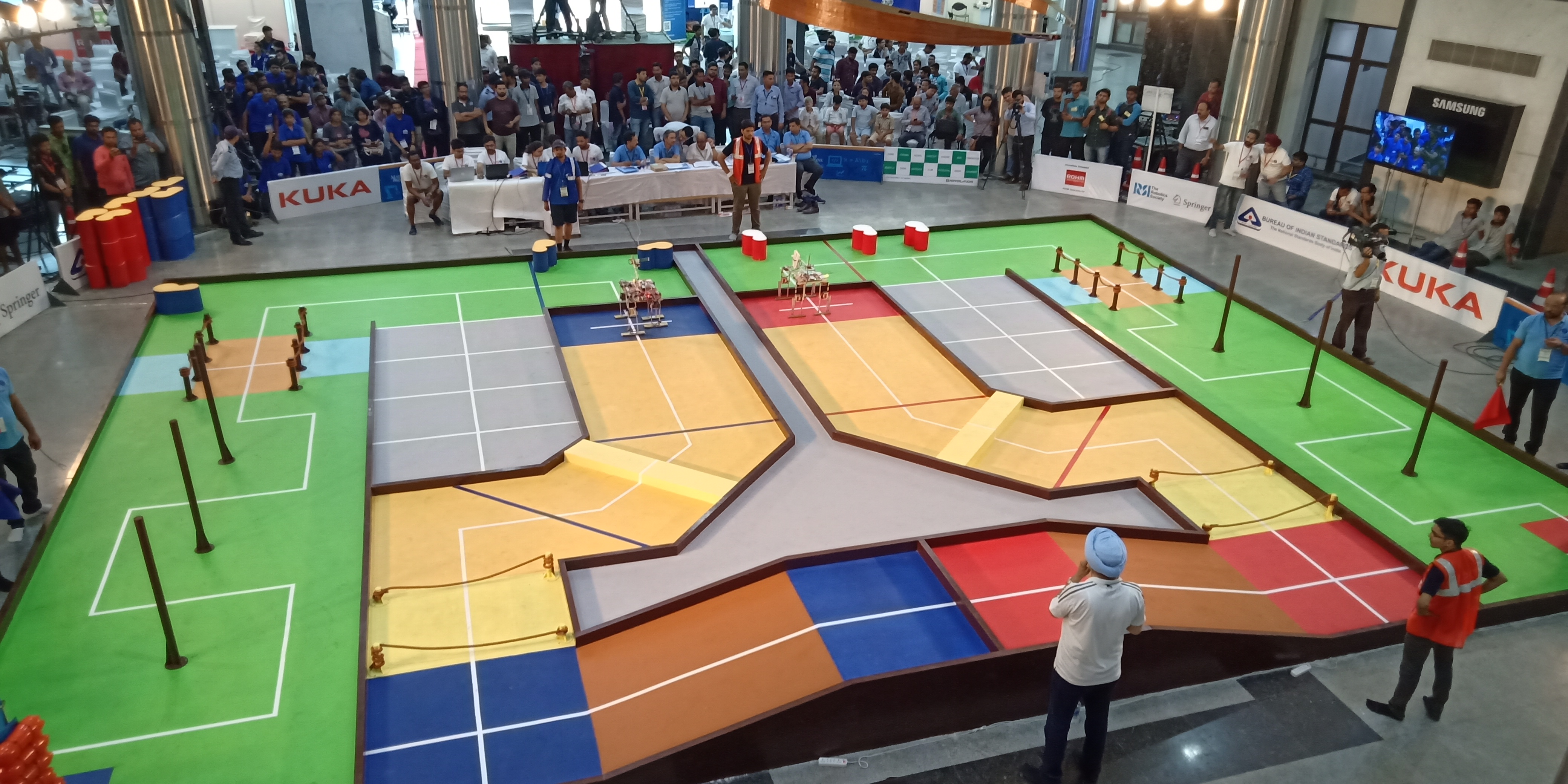 Image is taken from balcony of first floor During the Quarter final match of LDCE Vs VIER. At Lecture Hall Complex IIT Delhi.